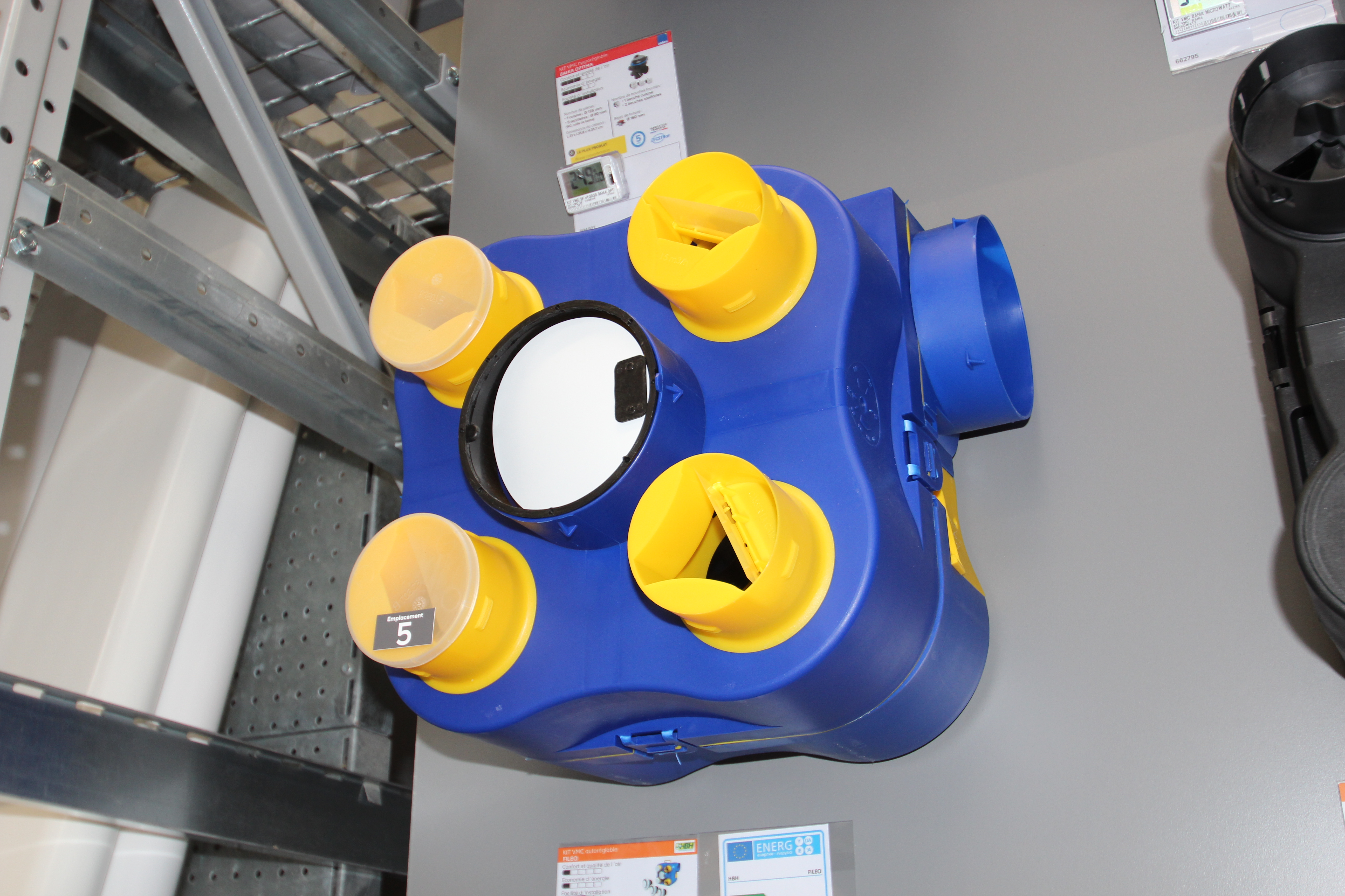 Castorama hardware shop in Les Ulis, France. Object location48° 40′ 42.56″ N, 2° 12′ 10.01″ E